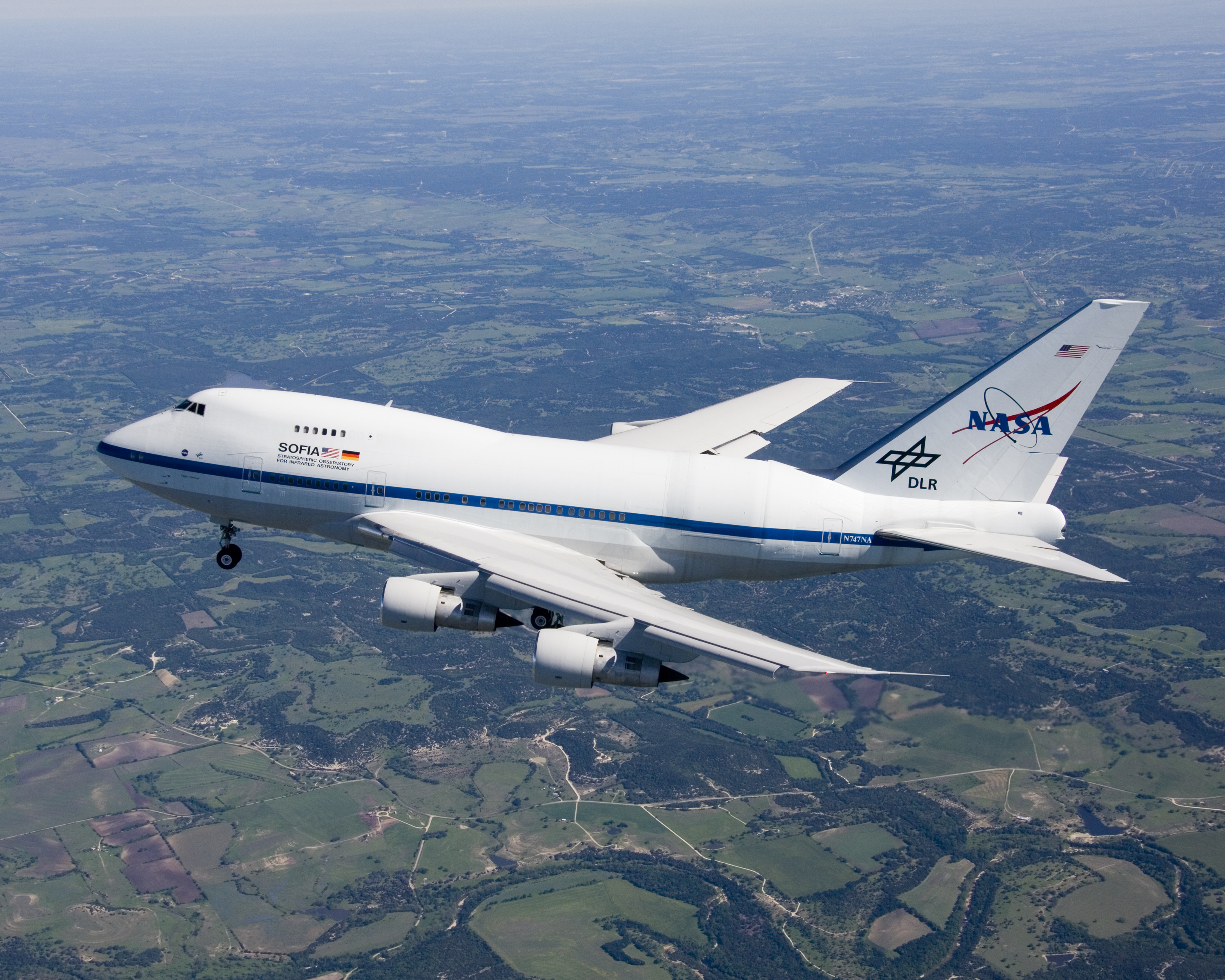 SOFIA (Stratospheric Observatory For Infrared Astronomy) aircraft in air. This inflight photo was taken during the first flight of the NASA and German Aerospace Center SOFIA airborne infrared observatory 747SP. NASA research pilot and astronaut Gordon Fullerton led the crew making the historic first flight.